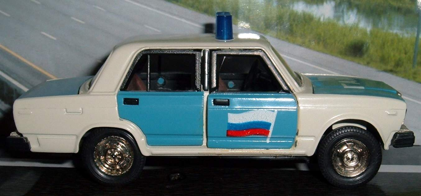 riva 2107